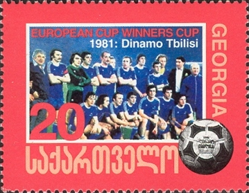 Stamps of Georgia, 2002